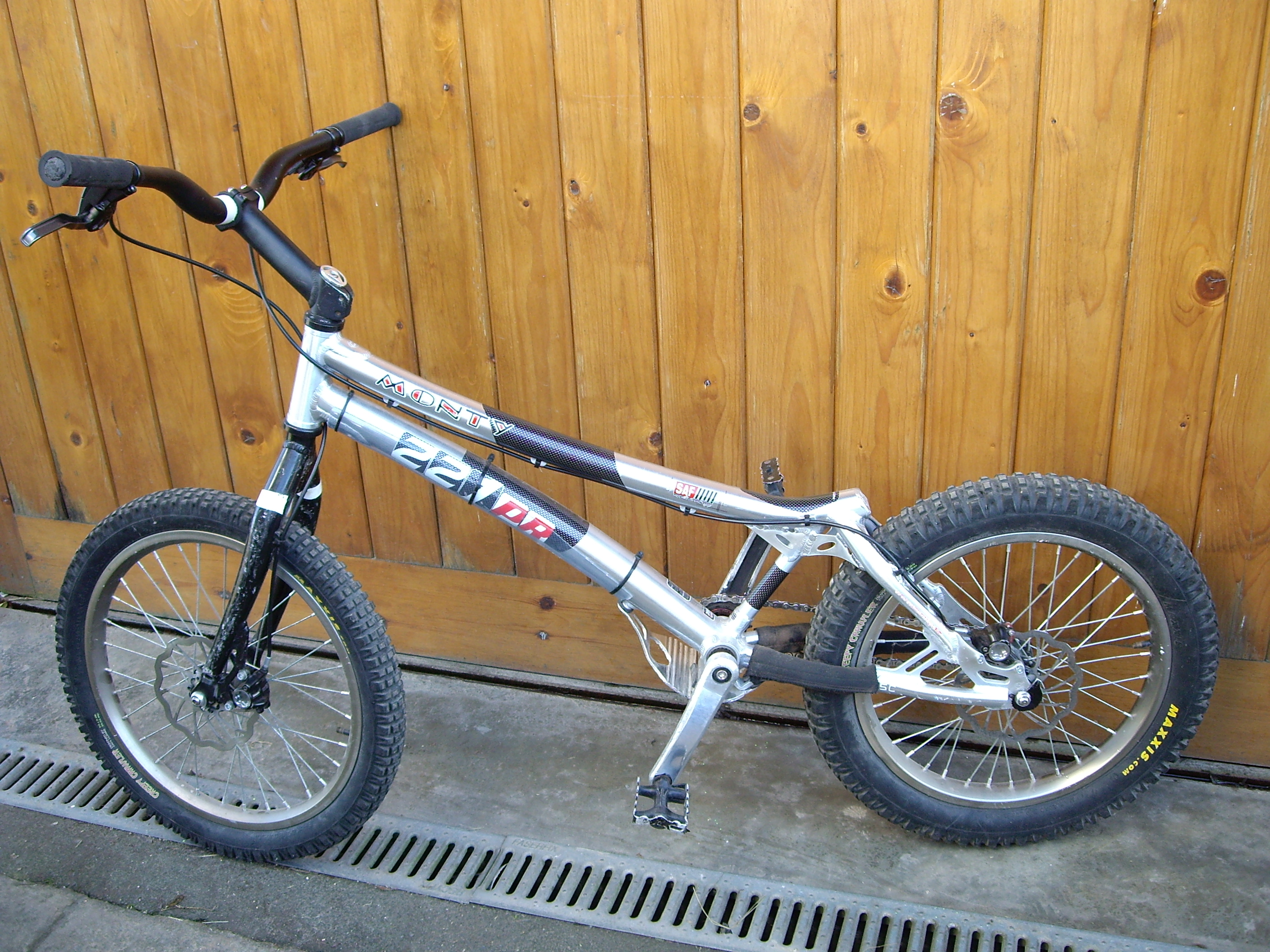 Monty PR 2007, Biketrial